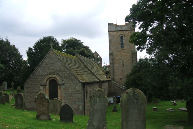 St Ebba's Church, Ebchester